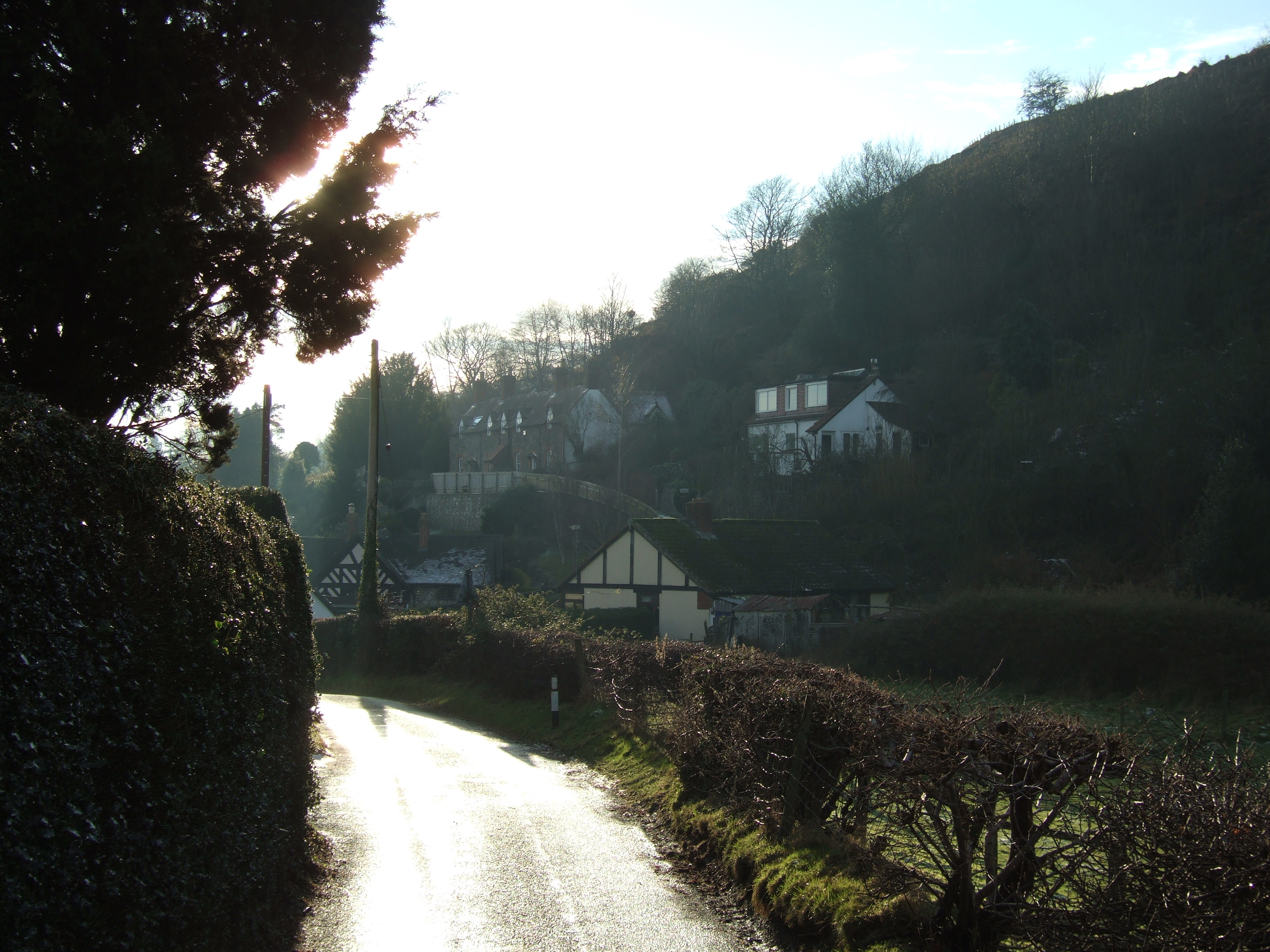 Part of All Stretton - taken from Castle Hill/lane up to Plush Hill